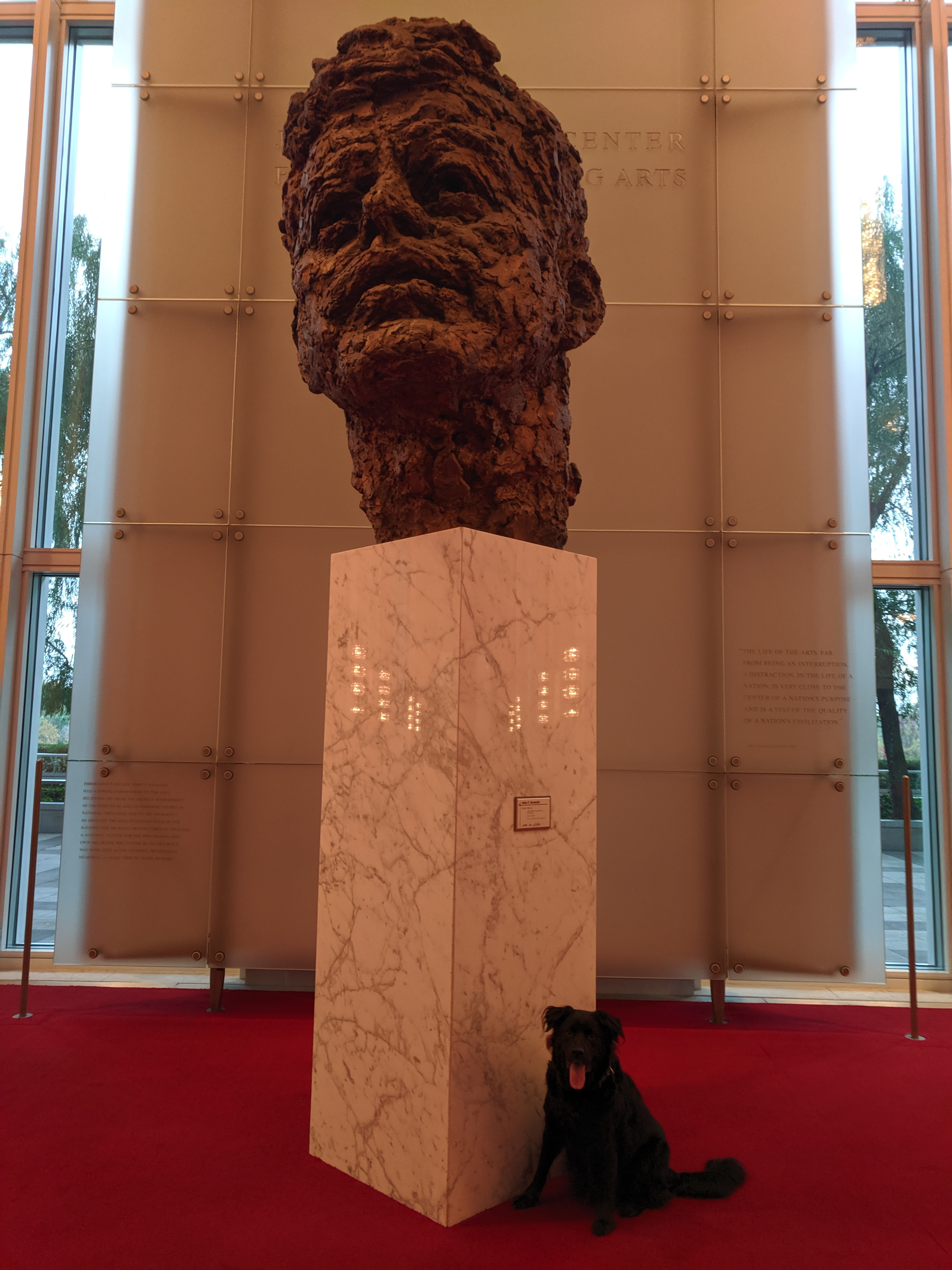 Replaced the close-up of the JFK bust with a full shot (that includes my dog, Ninja). The close-up doesn't have the dimension to do the statue justice. Subject to Approval, of course.